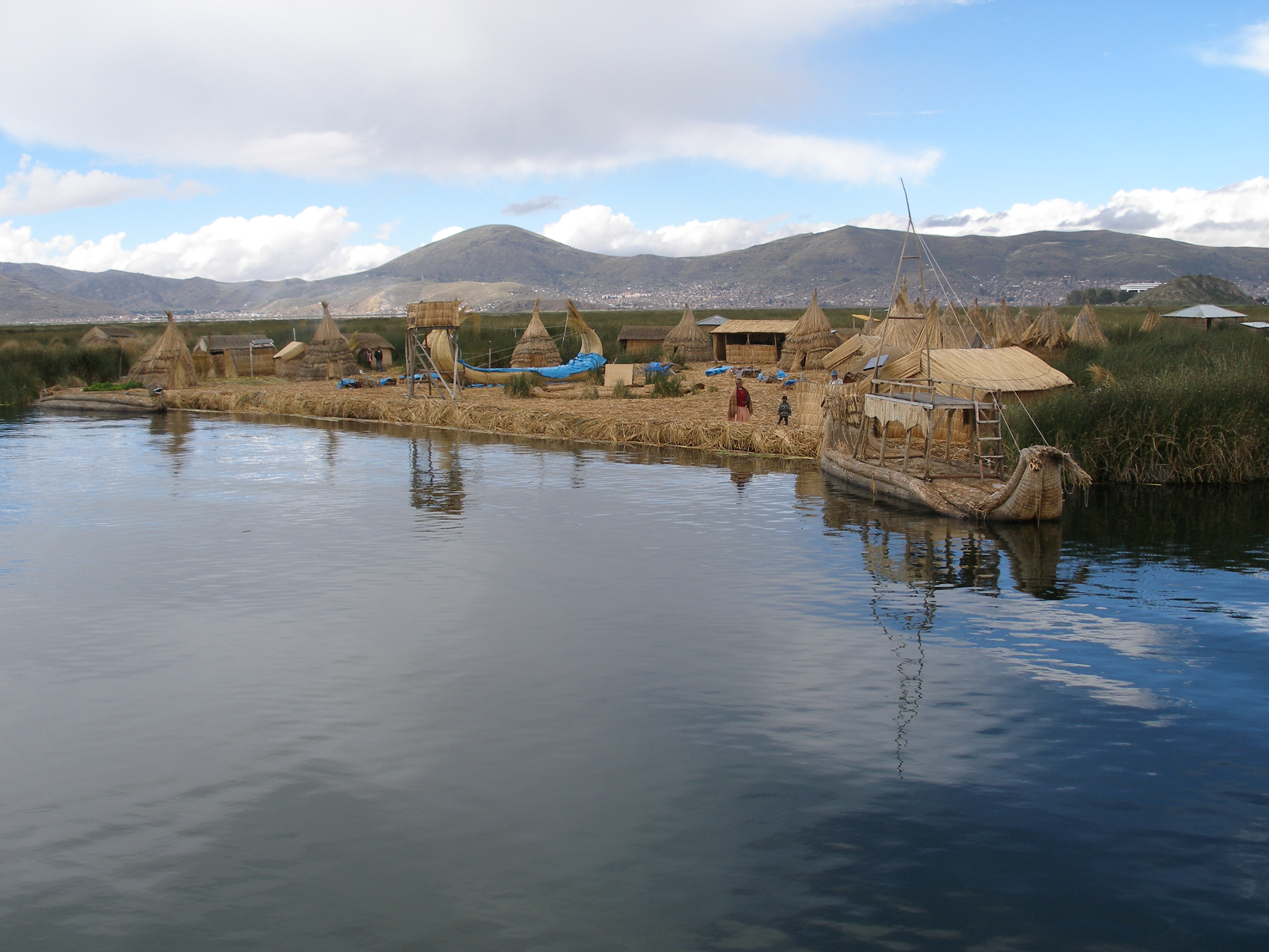 Reed Islands of Lake Titicaca Original caption: The people of the Uros islands of Lake Titicaca make their homes on large clumps of floating reeds. The eat reeds, they make their homes from reeds, and they build very seaworthy boats from bundles of reeds. Thor Heyerdahl tried to prove that the reed boats of Lake Titicaca were derived from the papyrus boats of Egypt.